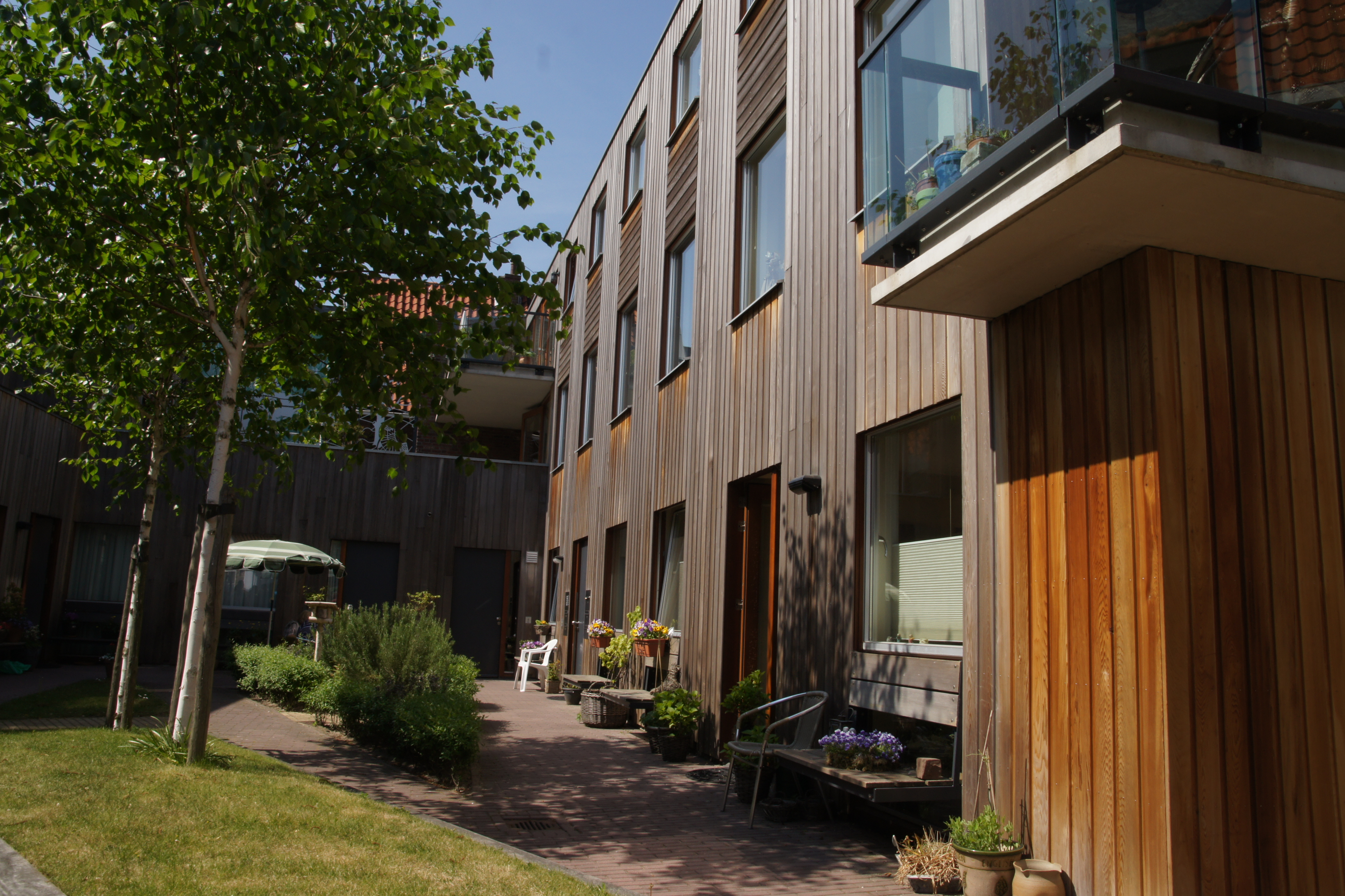 Johan Enschedé Hof, which is an Almshouse for elderly men and women (primarily women) in the city of Haarlem, the Netherlands. This is the main area of the Hofje, including most of the courtyard. Both all three sides of the Hofje are visible, the side linked with Hofje van Bakenes is visible on the extreme left of the image, the side with an exit to the street dominates the right side of the image, and the third is in the middle. The street exit is to the photographer's right about 10m, and the connection to Hofje van Bakenes is to the photographer's left about 15m.